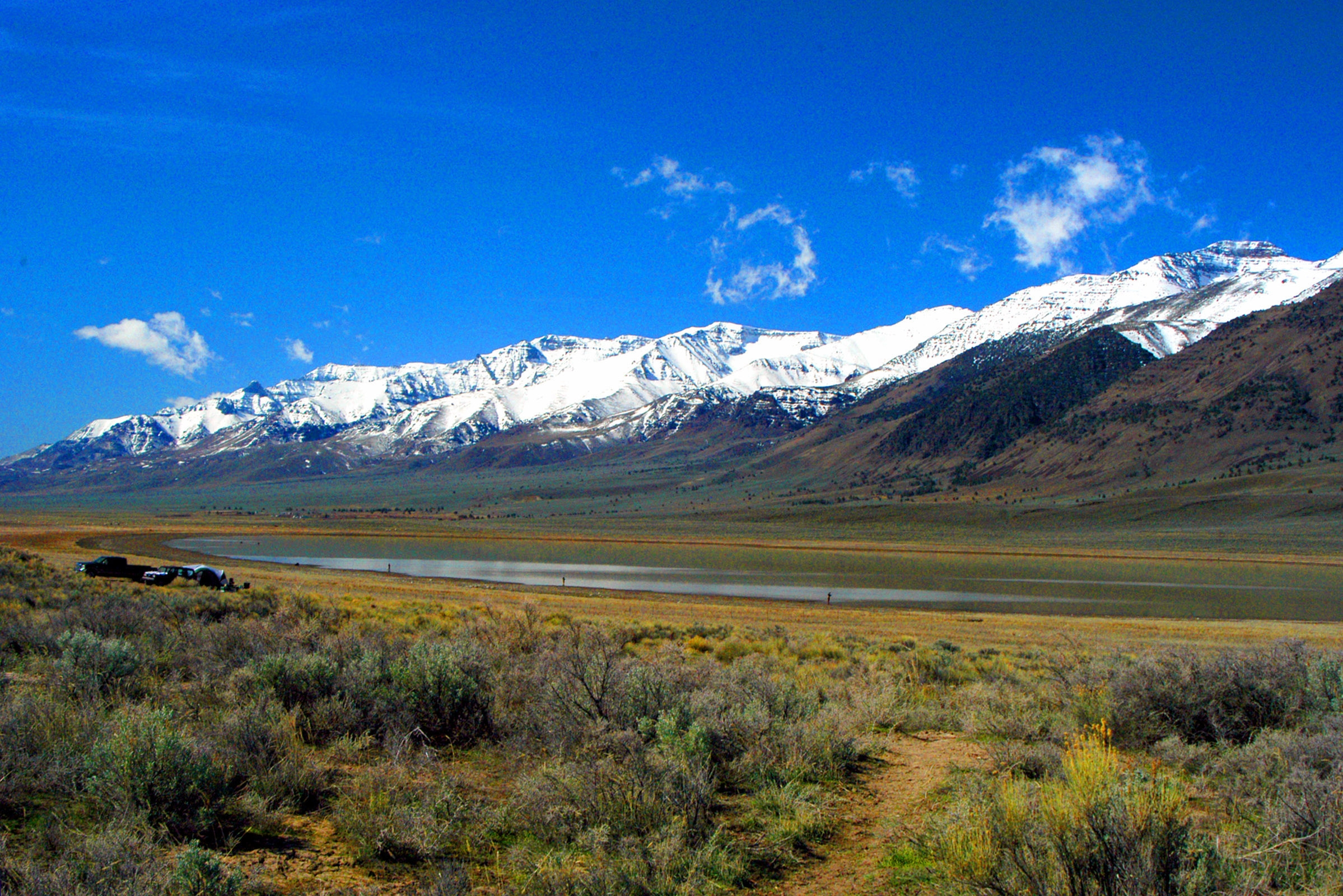 East slope of Steens Mountain above Mann Lake; Harney County, Oregon